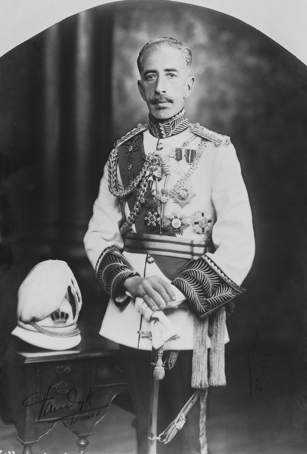 Photograph of King Feisal of Iraq: three-quarters length portrait, standing, in full military dress, with many medals and insignia on jacket, sash, holding a sword; helmet on table. Signed by the sitter. This was probably taken on the Kings' visit to London, shortly before he died in 1933.